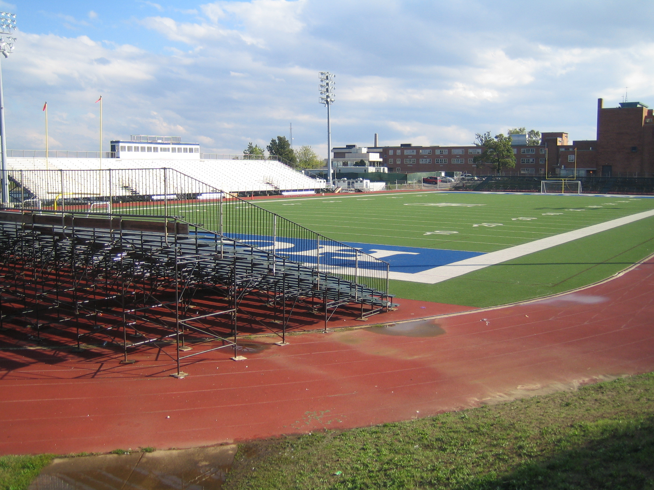 William H. Greene Stadium on the campus of Howard University in Washington, D.C.